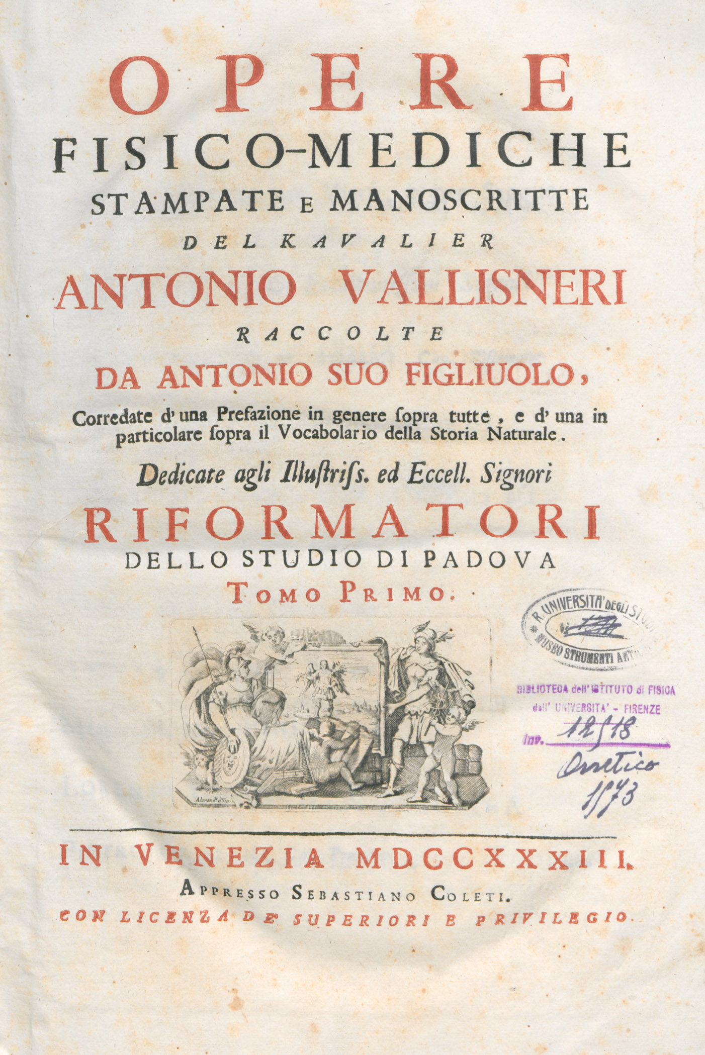 Title-page of Opere fisico-mediche stampate e manoscritte by Antonio Vallisneri (Venice, 1733)